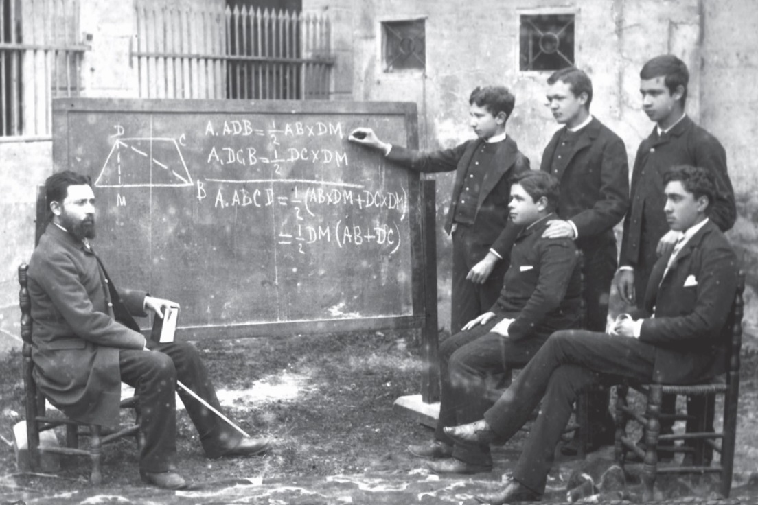 Collegio de Valldemia, around 1870